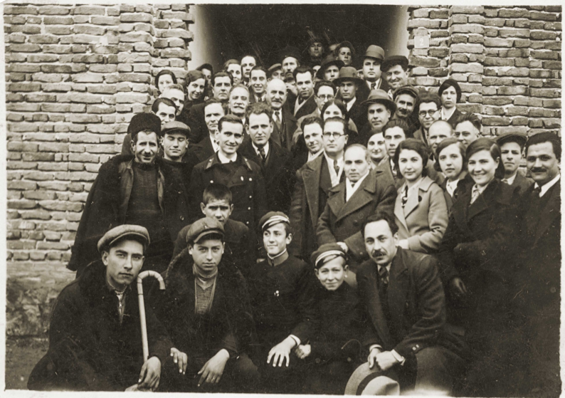 Community Center in Belozem in 1936